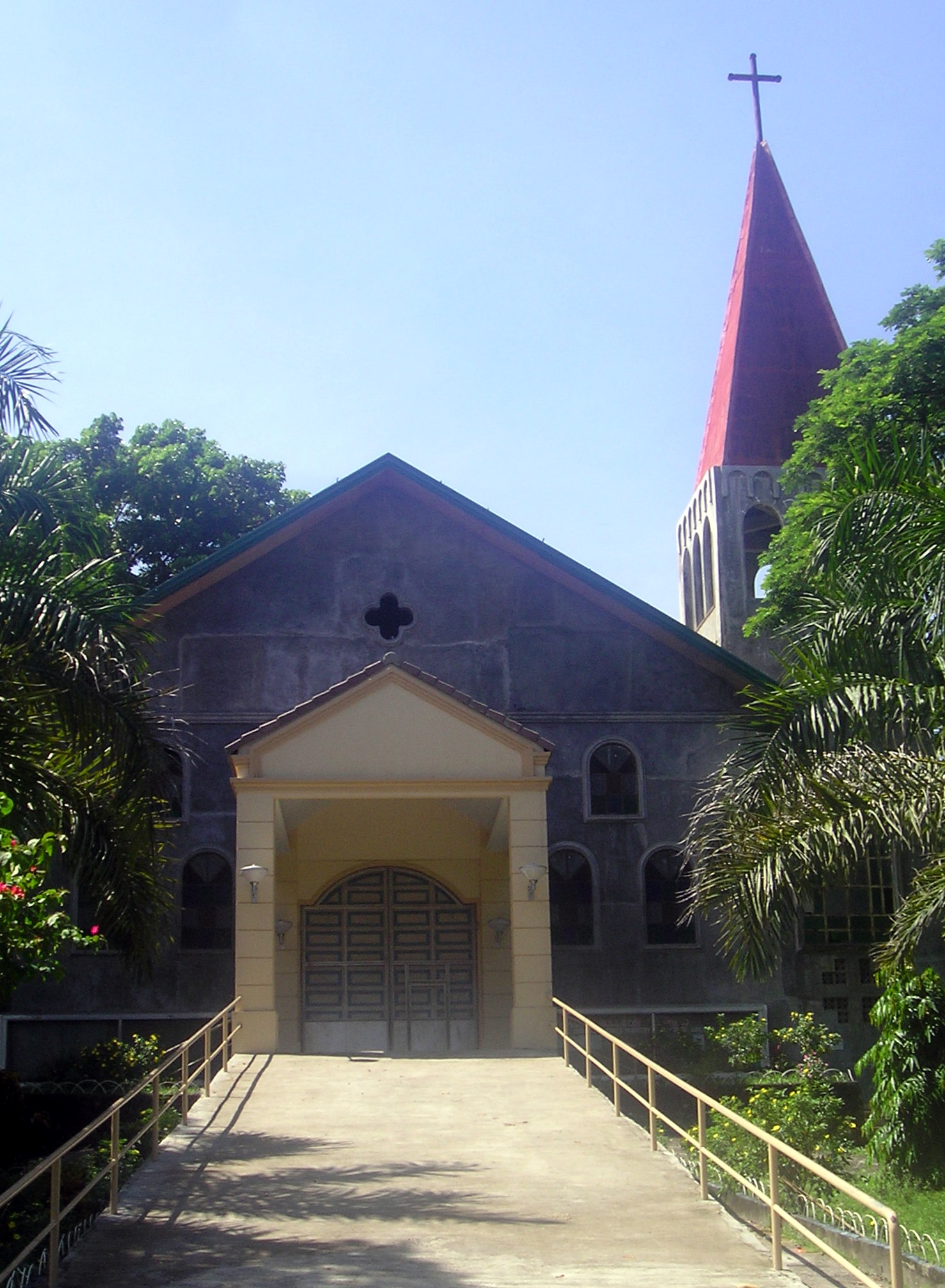 Catarman's church is newly renovated. The town was established as an evangelical mission in 1623. Olympus Camedia (SWP Mindanao Conference, July 2005). Slightly improved with Picasa.